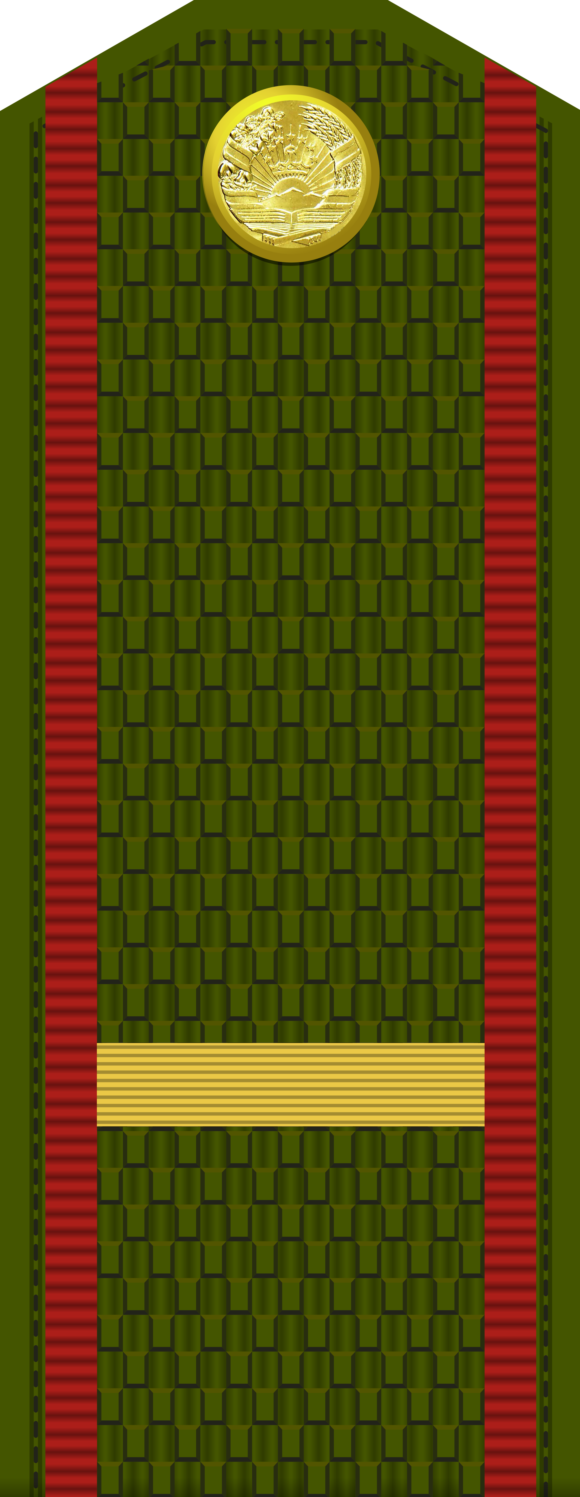 Тоҷикӣ: Rank insignia of Private First Class for the Tajikistan Army